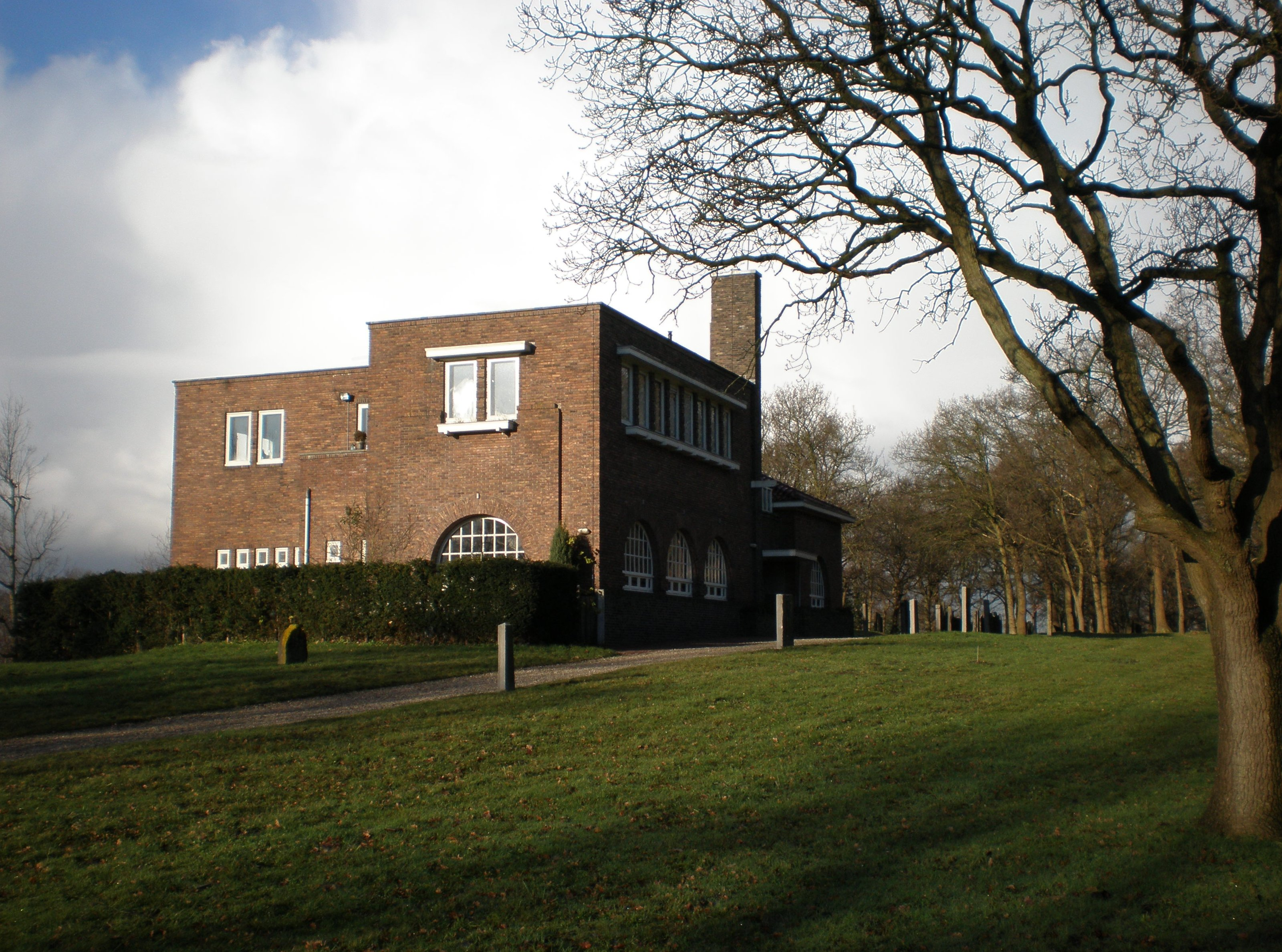 Building at the Jewish cemetery in Muiderberg.